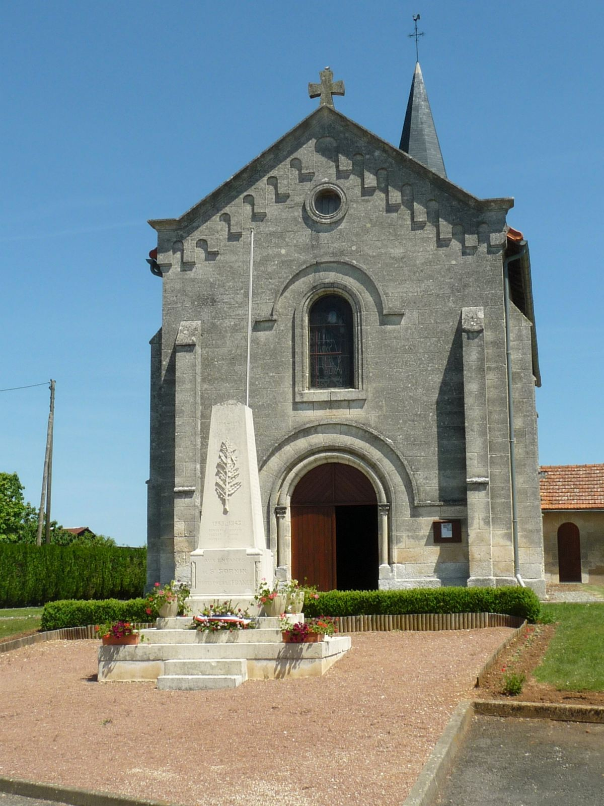 church and war memorial of Saint-Sornin, Charente, SW France